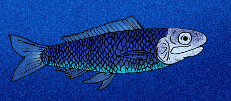 Reconstruction of the Paleocene basal stomiiform Idrissia turkmenica, from what is now Turkmenistan.